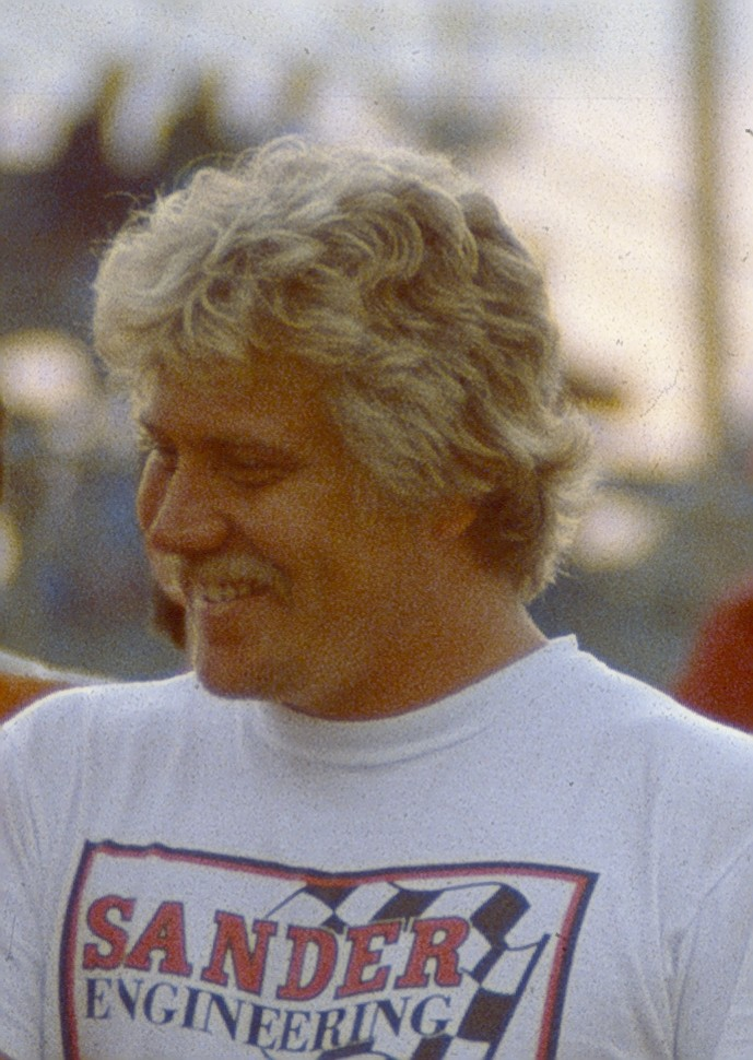 20 time World of Outlaws champion Steve Kinser. Photo By Ted Van Pelt